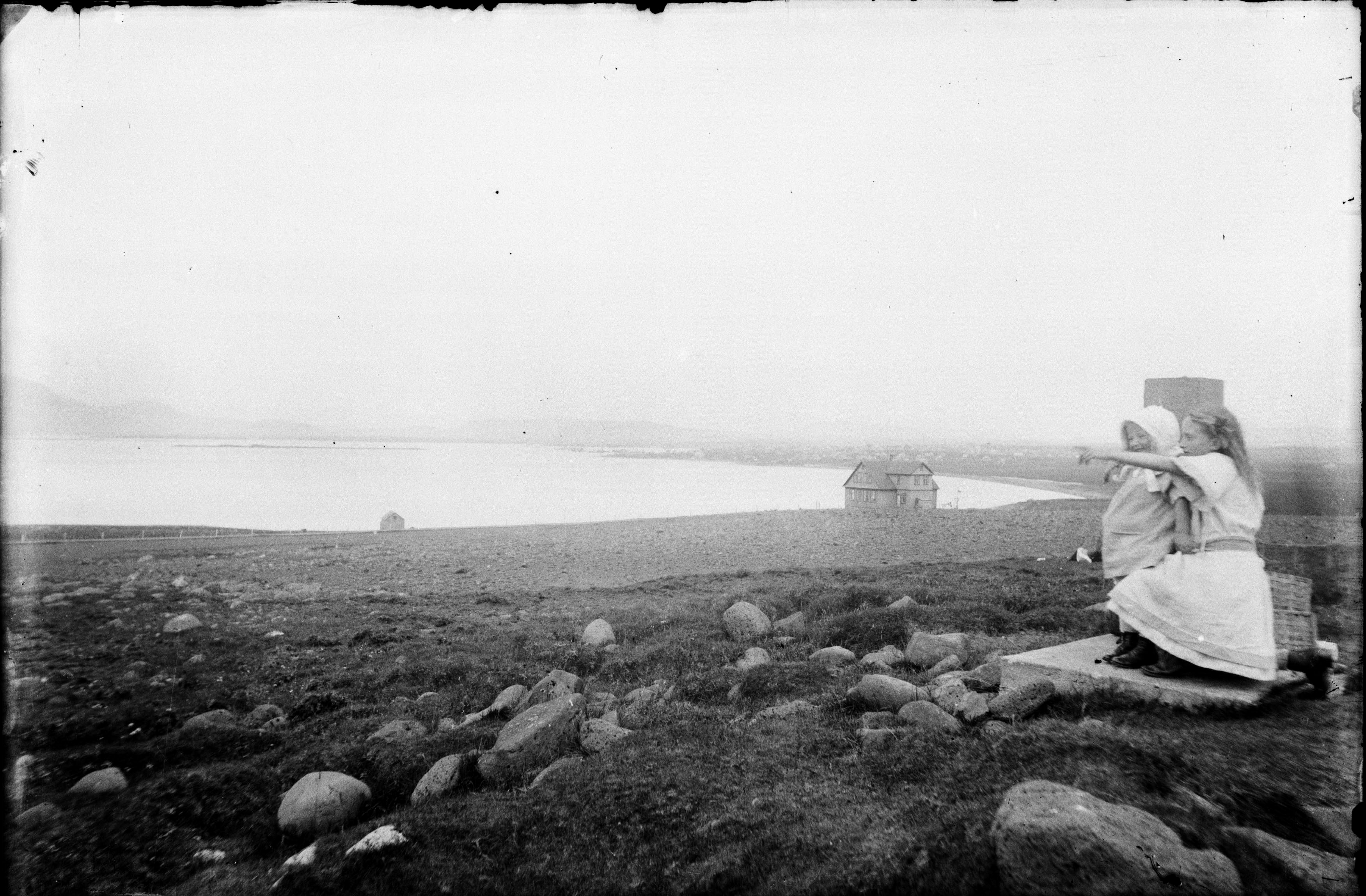 Two girls on Valhúsahæð in Seltjarnarnes. In the background Reykjavík is visible.